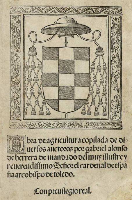 Frontispiece of the first edition of Gabriel Alonso de Herrera. "Obra de Agricultura copilada de diuersos auctores". Alcalá de Henares: Arnao Guillén de Brocar; 1513. Other editions: Toledo, Arnao Guillén de Brocar, 1520; Alcalá de Henares, Miguel Deguía, 1524; Toledo, [s. i.], 1524; [Zaragoza?], [Jorge Coci], 1524; Logroño, Miguel Deguía, 1528; Alcalá de Henares, Juan de Brocar, 1539.